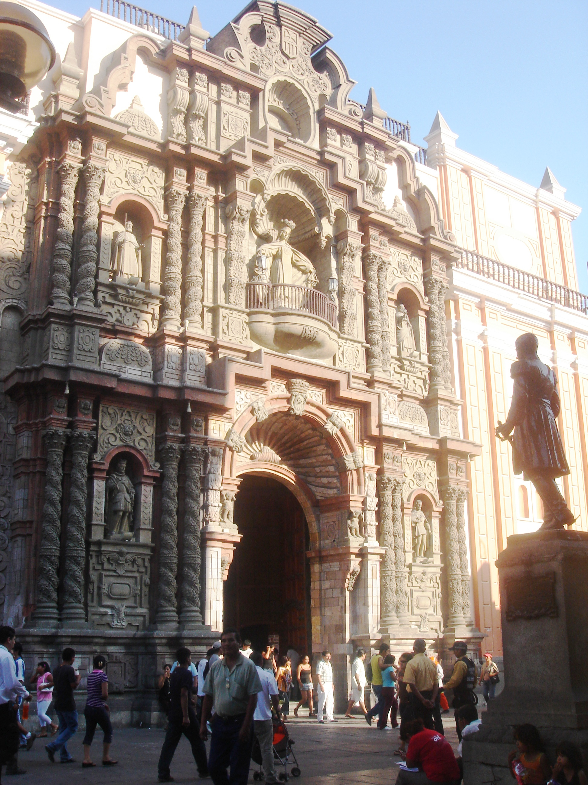 Basilica of Our Lady of Mercy - Lima, Peru.